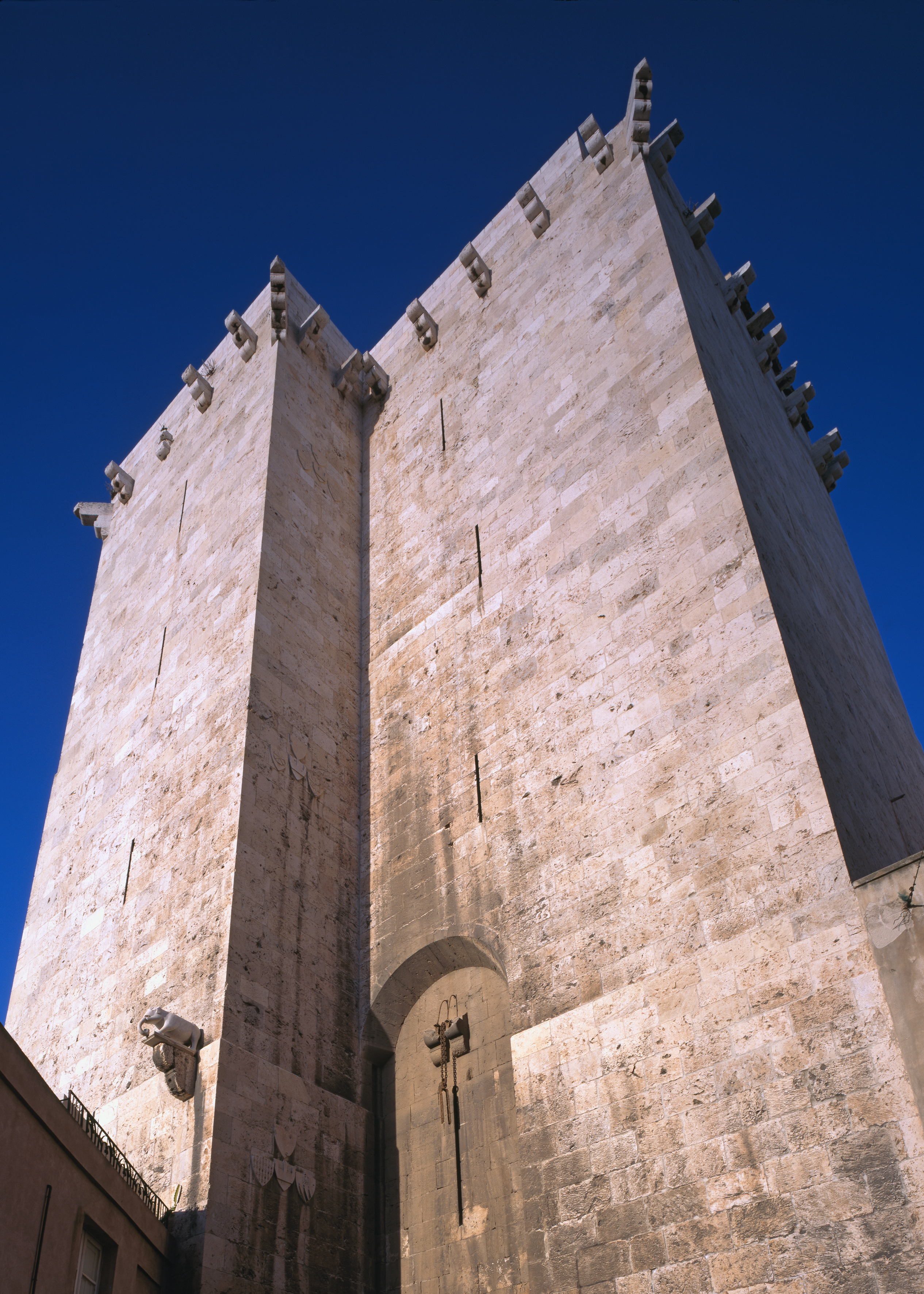 Elephant TowerSardu: Turri de su Liofanti